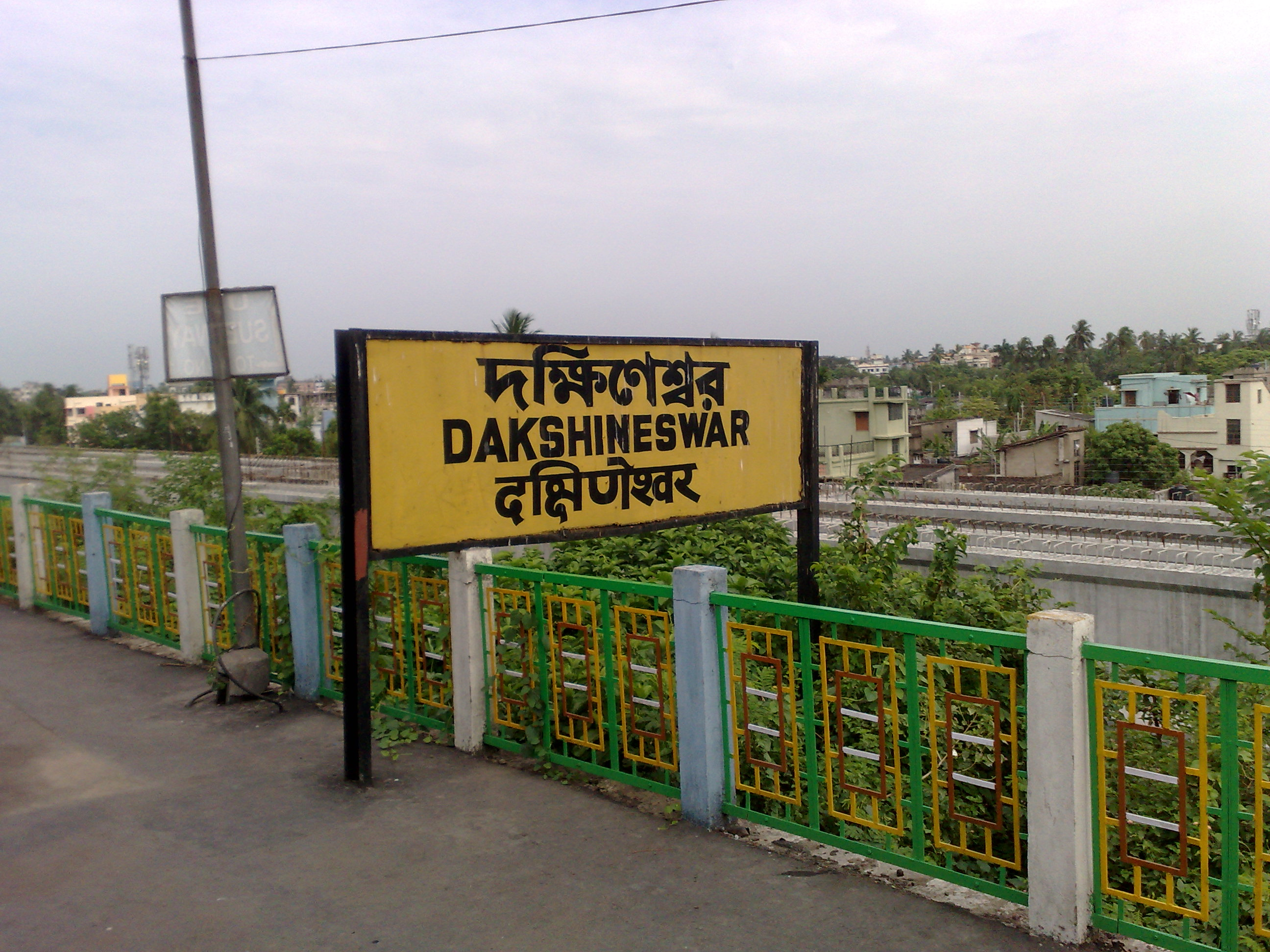 Dakshineshwar Station